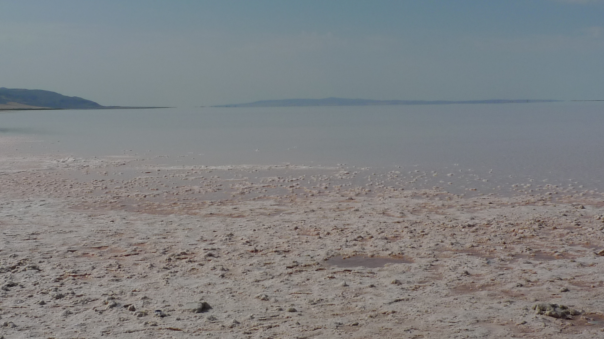 A view of Lake Tuz (The Salt Lake) in Turkey